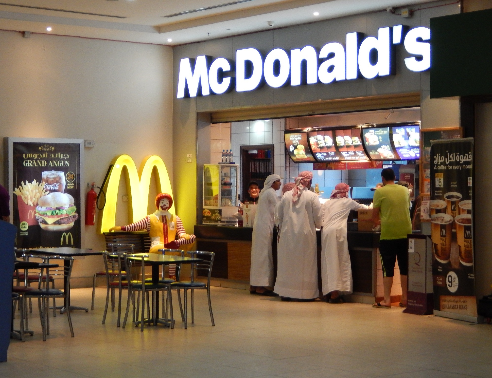 A McDonalds restaurant in Dukhan, western Qatar.